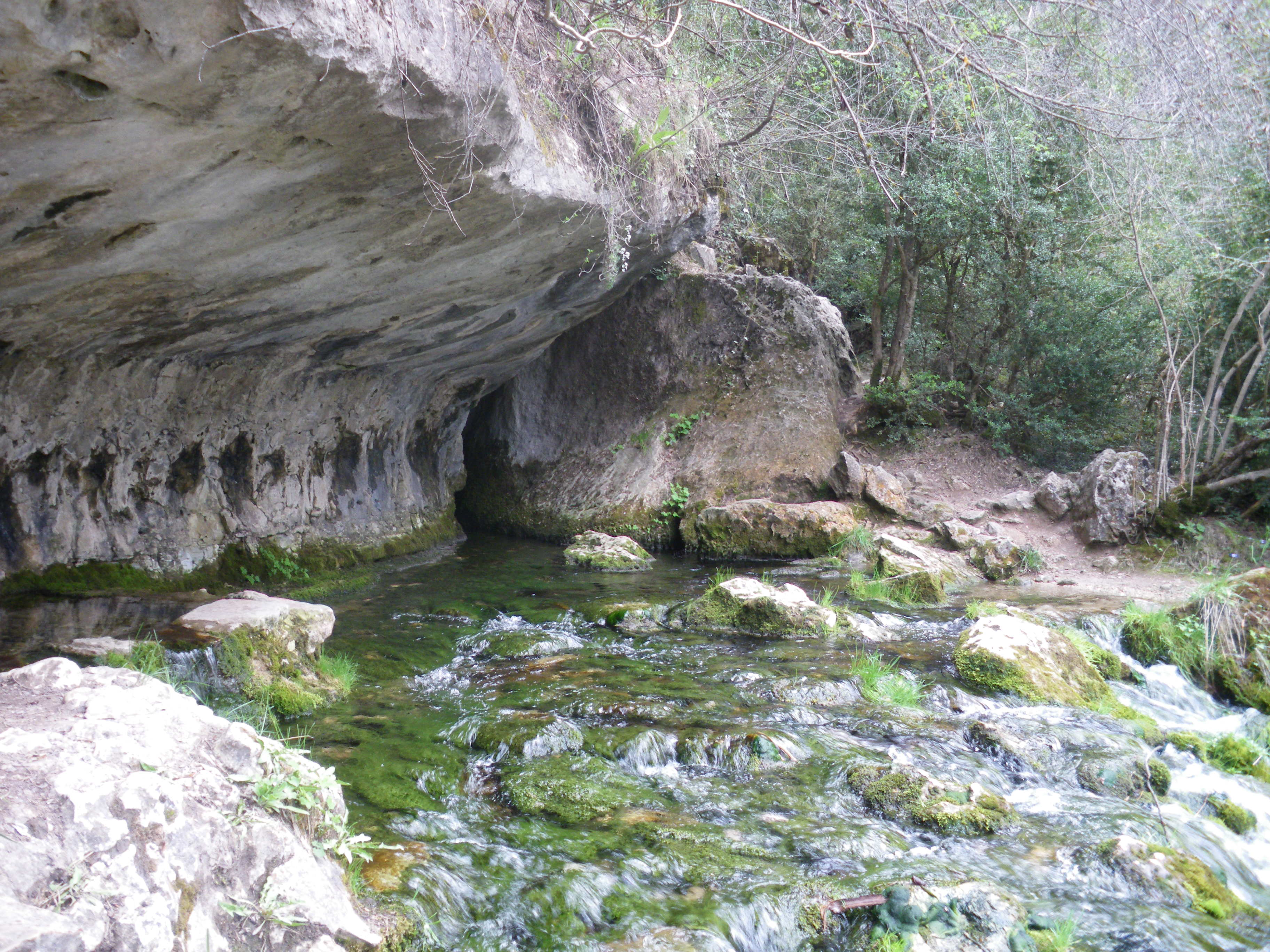 This is a photography of a Site of Community Importance in Spain with the ID: ES4230013. Natura2000 entry, EEA entry